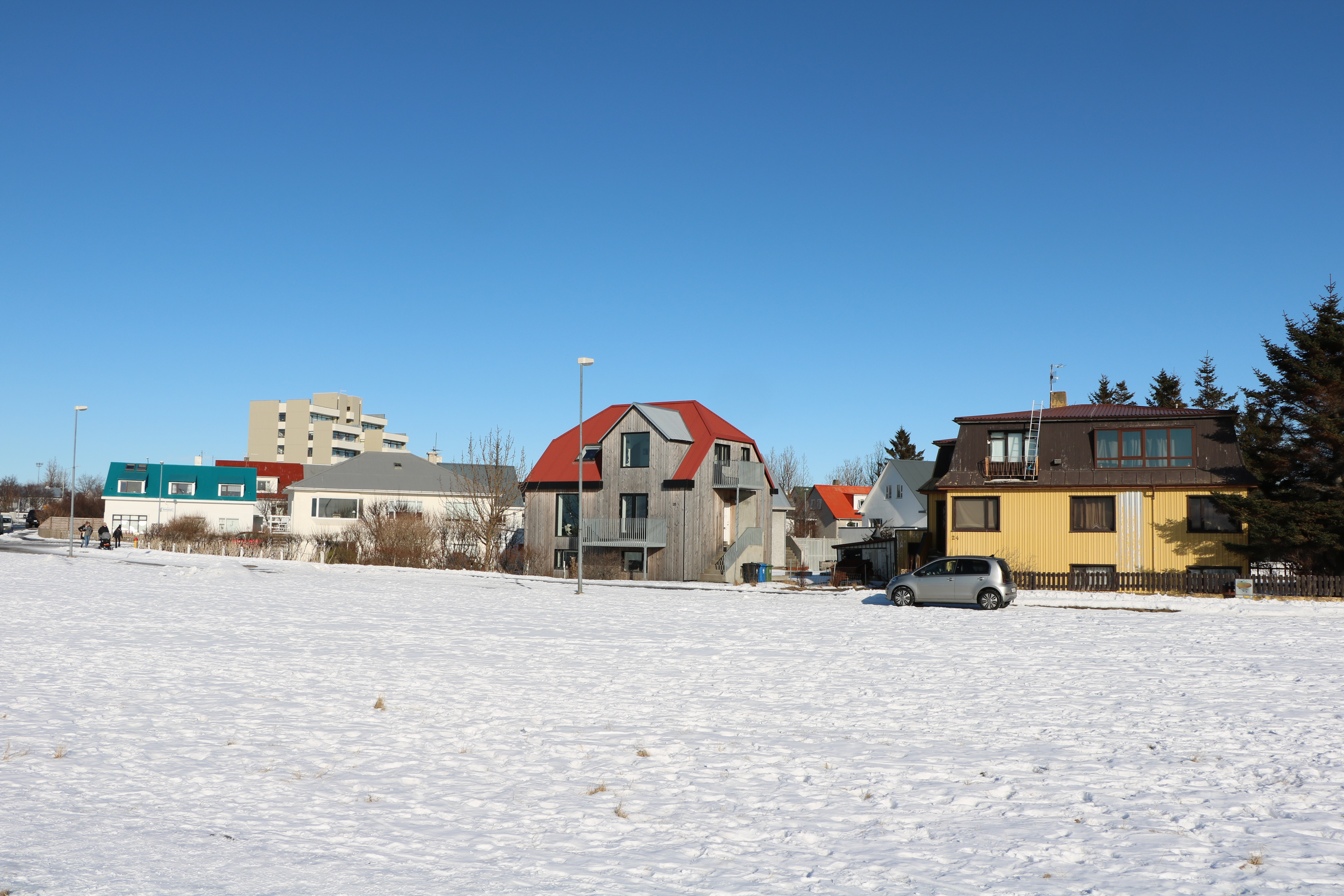 Residential area of Vesturbær, in the west part of Reykjavík.